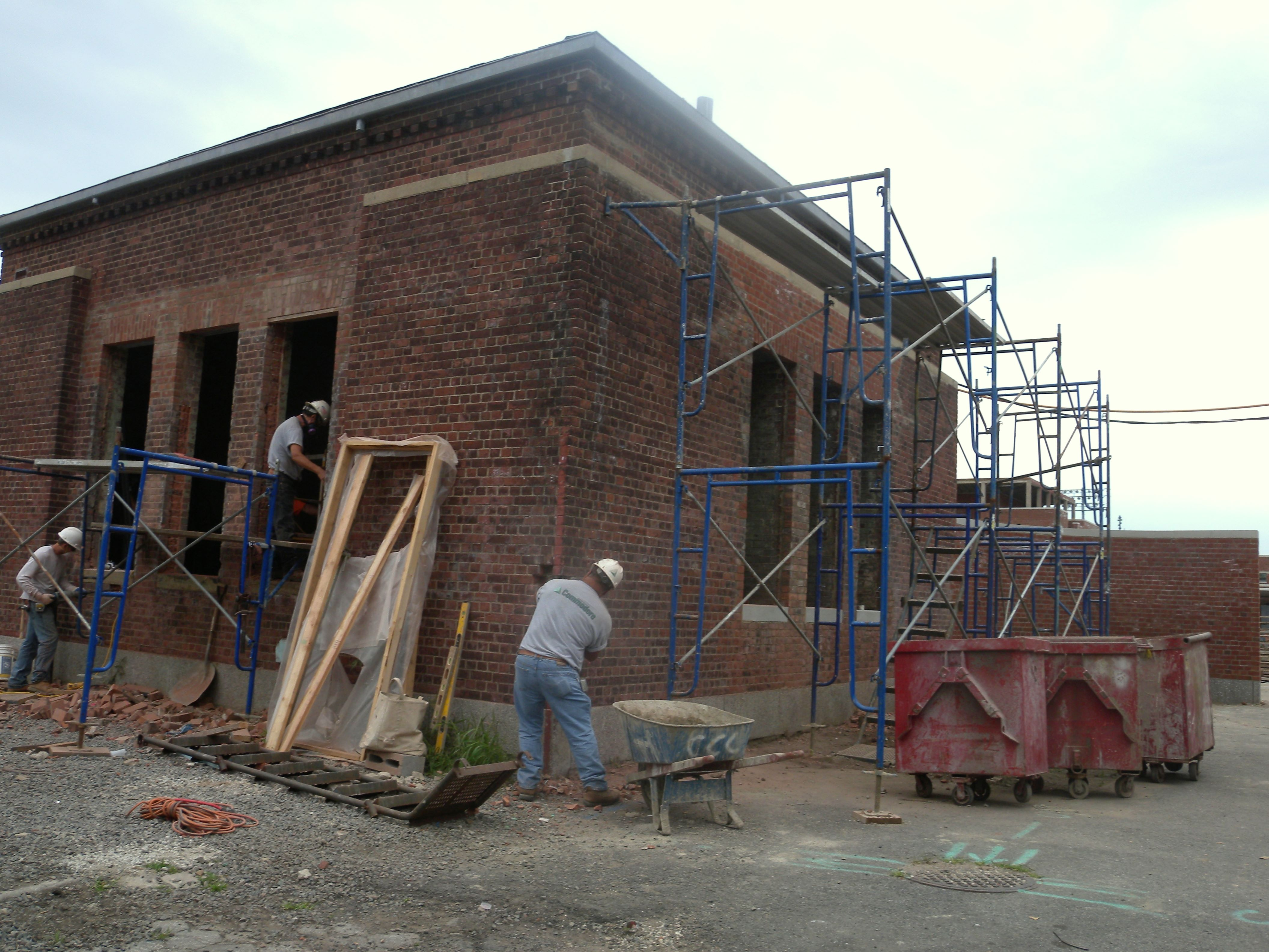 Looking west at renovations on a cloudy day.